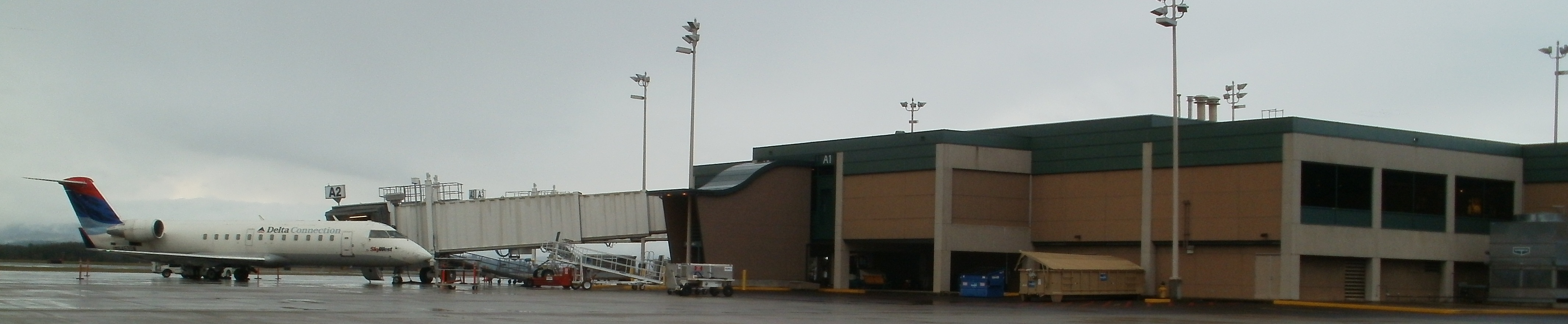 Eugene OR airport passenger terminal, A gates, November 2010